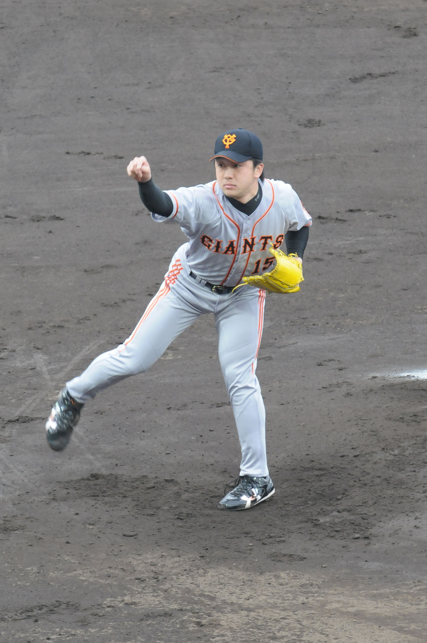 Hirokazu Sawamura, pitcher of the Yomiuri Giants, at Akita Prefectural Baseball Stadium.